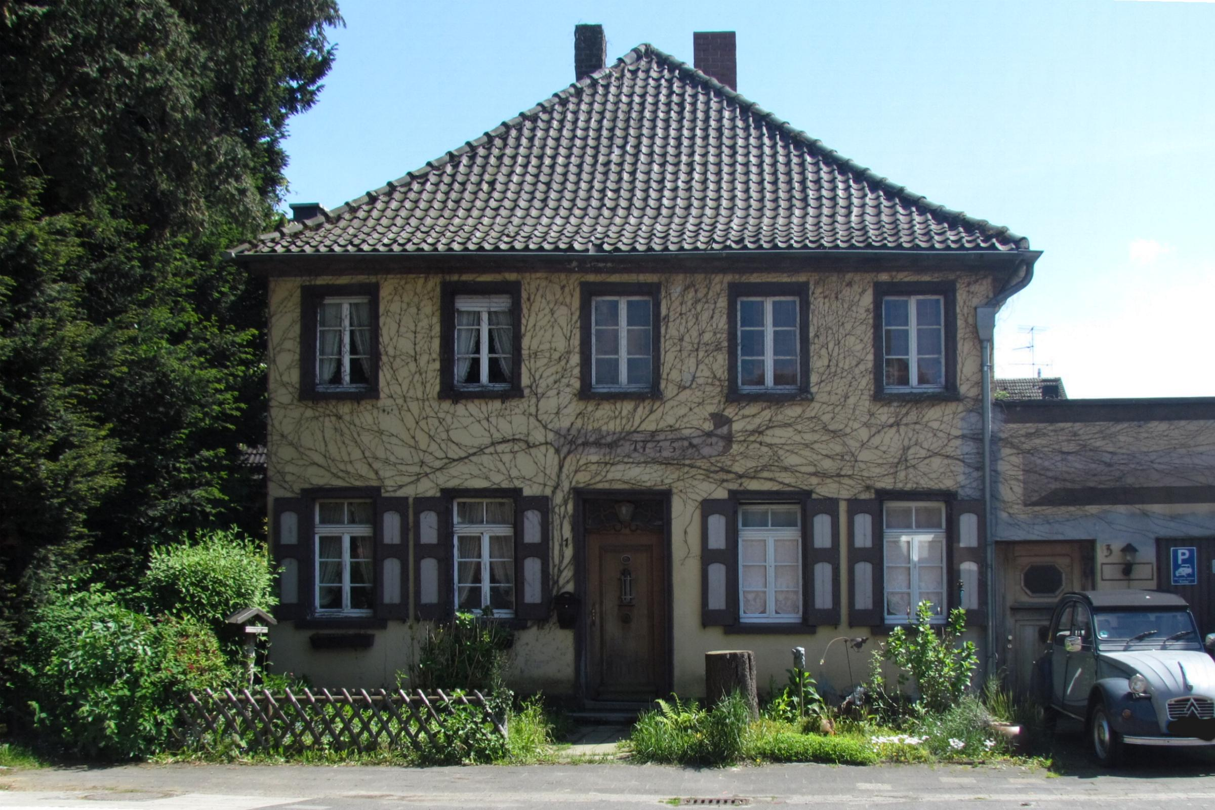 This is a photograph of an architectural monument.It is on the list of cultural monuments of Korschenbroich